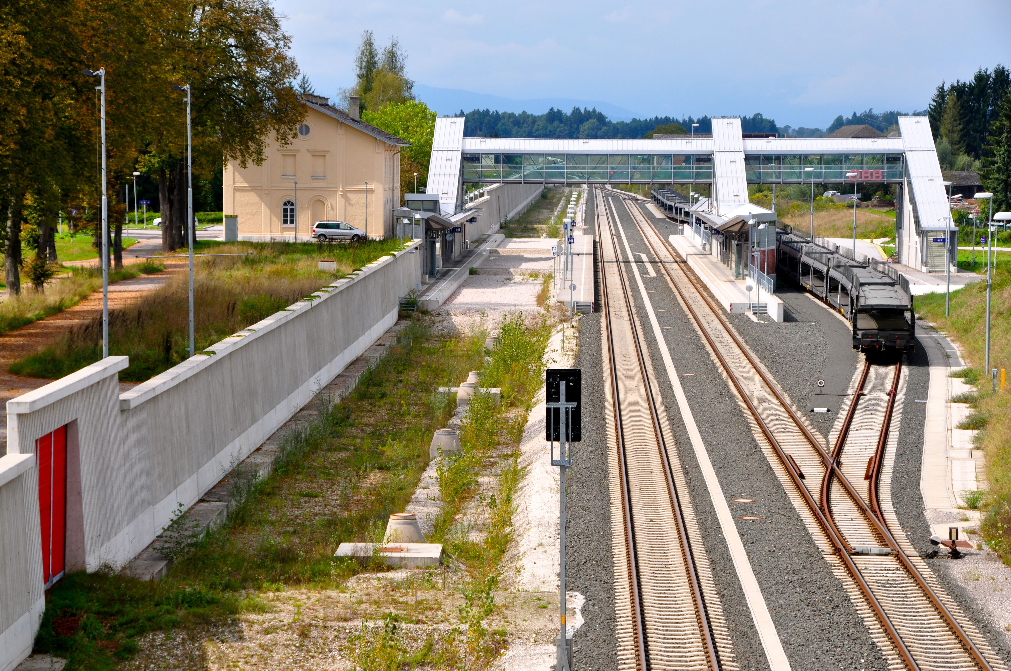 Train station of the Koralm railway on Truttendorfer Strasse #10 in Grafenstein, municipality Grafenstein, district Klagenfurt Land, Carinthia, Austria